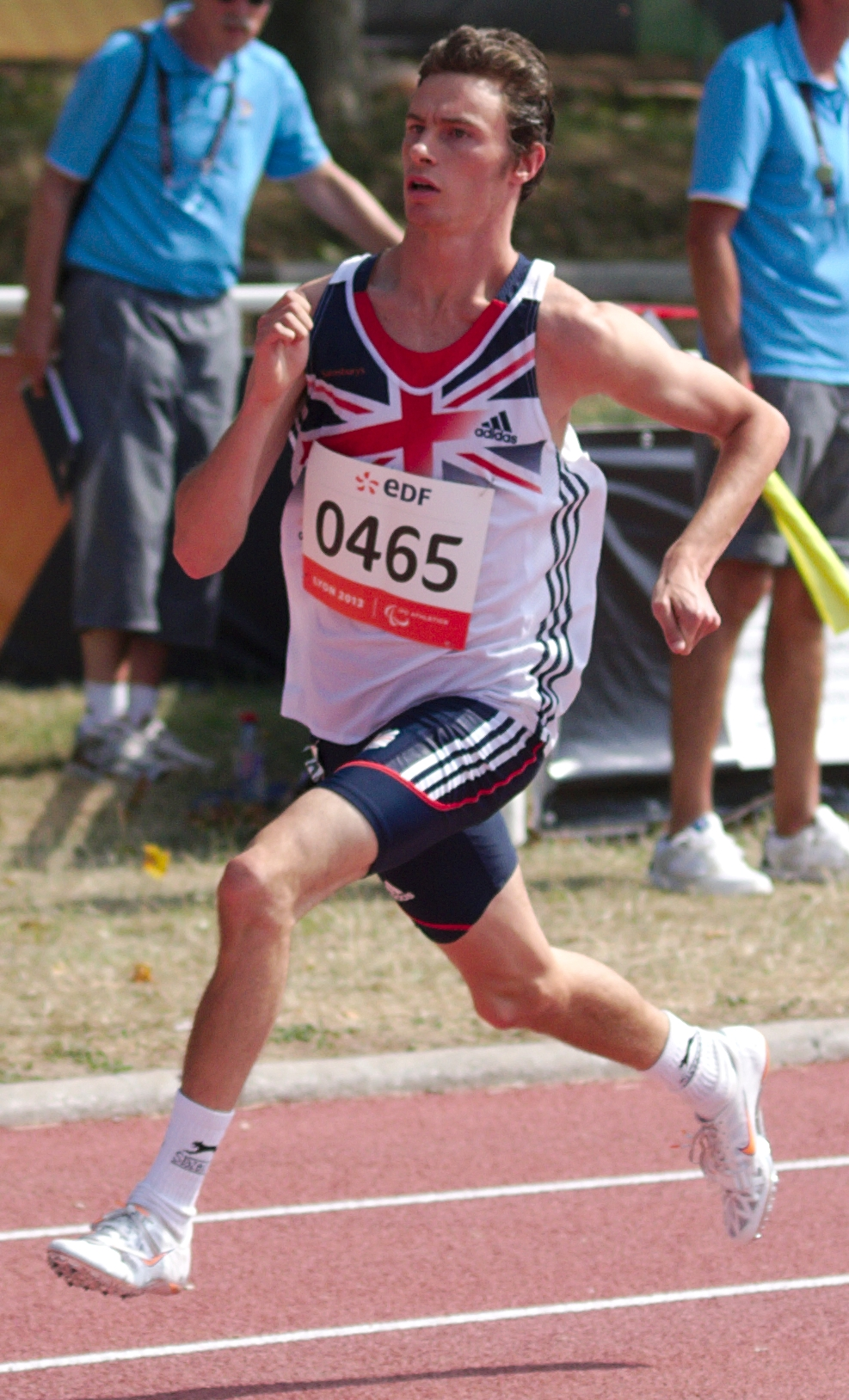 Paul Blake of Great-Britain during the Men's 400m - T36 final during the 2013 IPC Athletics World Championships